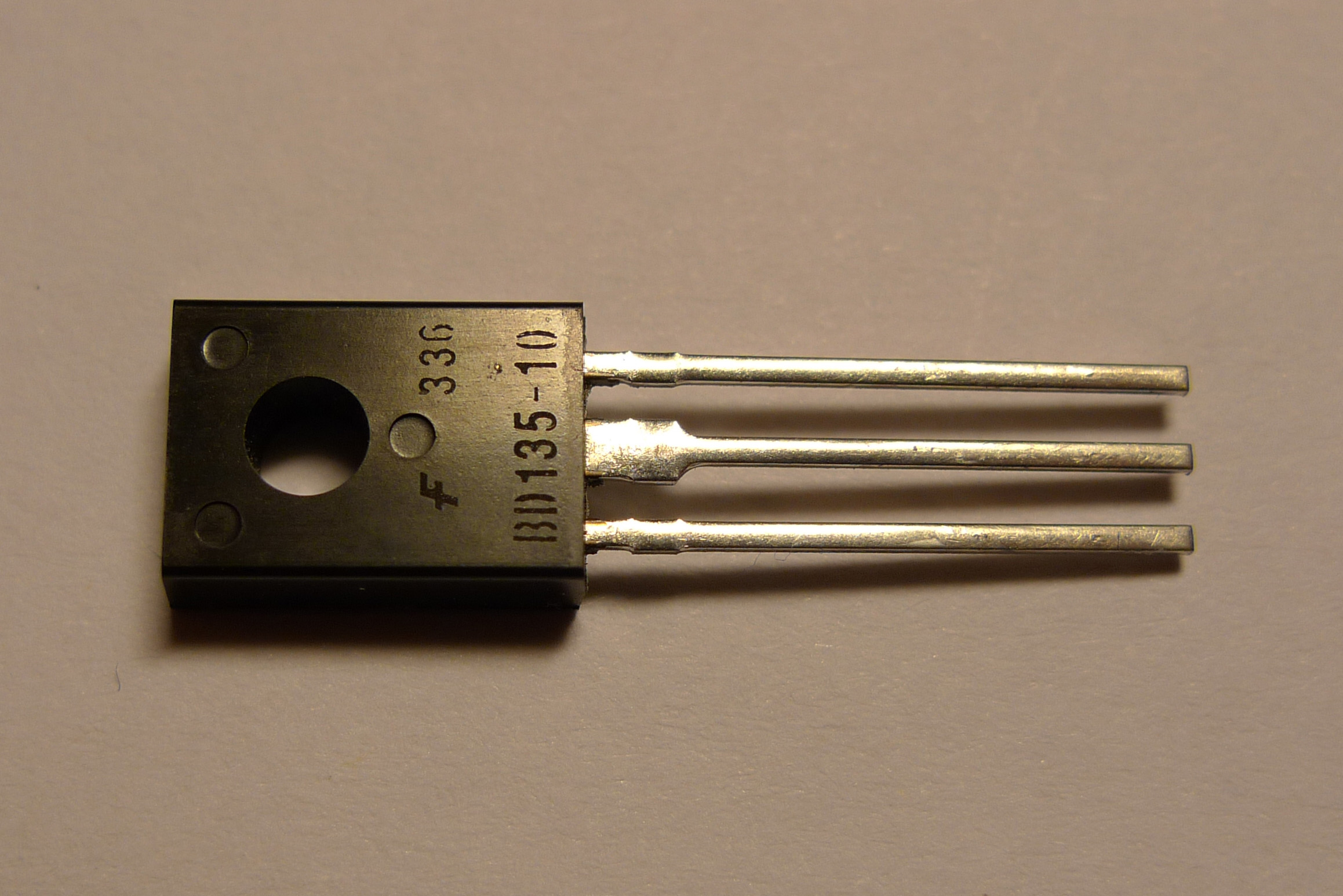 BD135 NPN transistor in a TO-126 package.